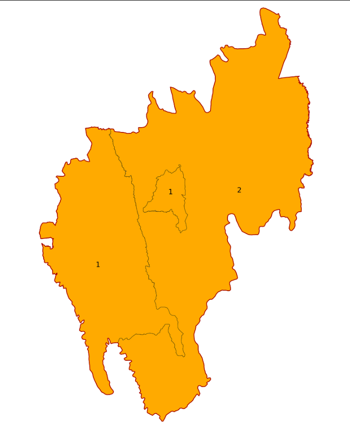 Seats won by parties in Tripura parliamentary constituencies